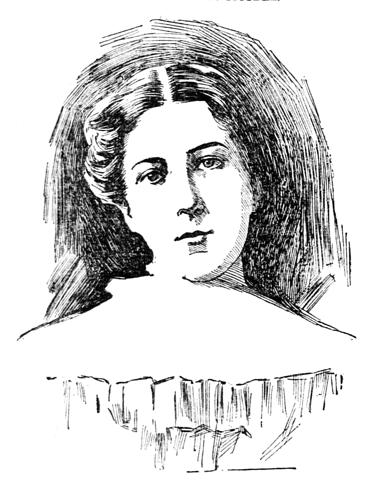 Portrait of artist Mary Ellen Sigsbee, daughter of Admiral Charles D. Sigsbee